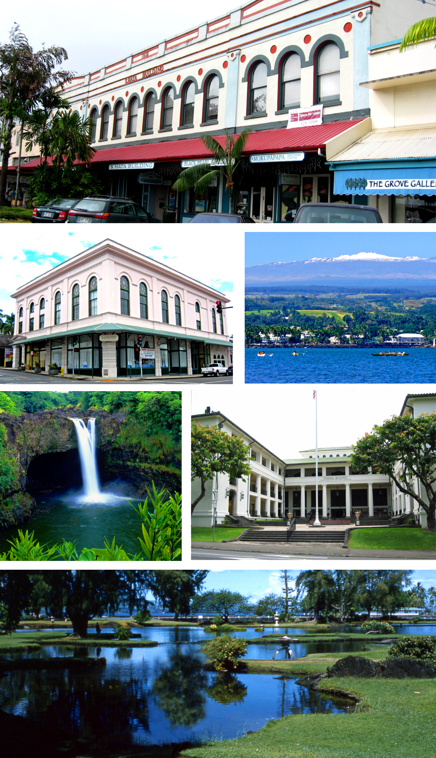 A collection of Hilo photographs from Wikimedia Commons.